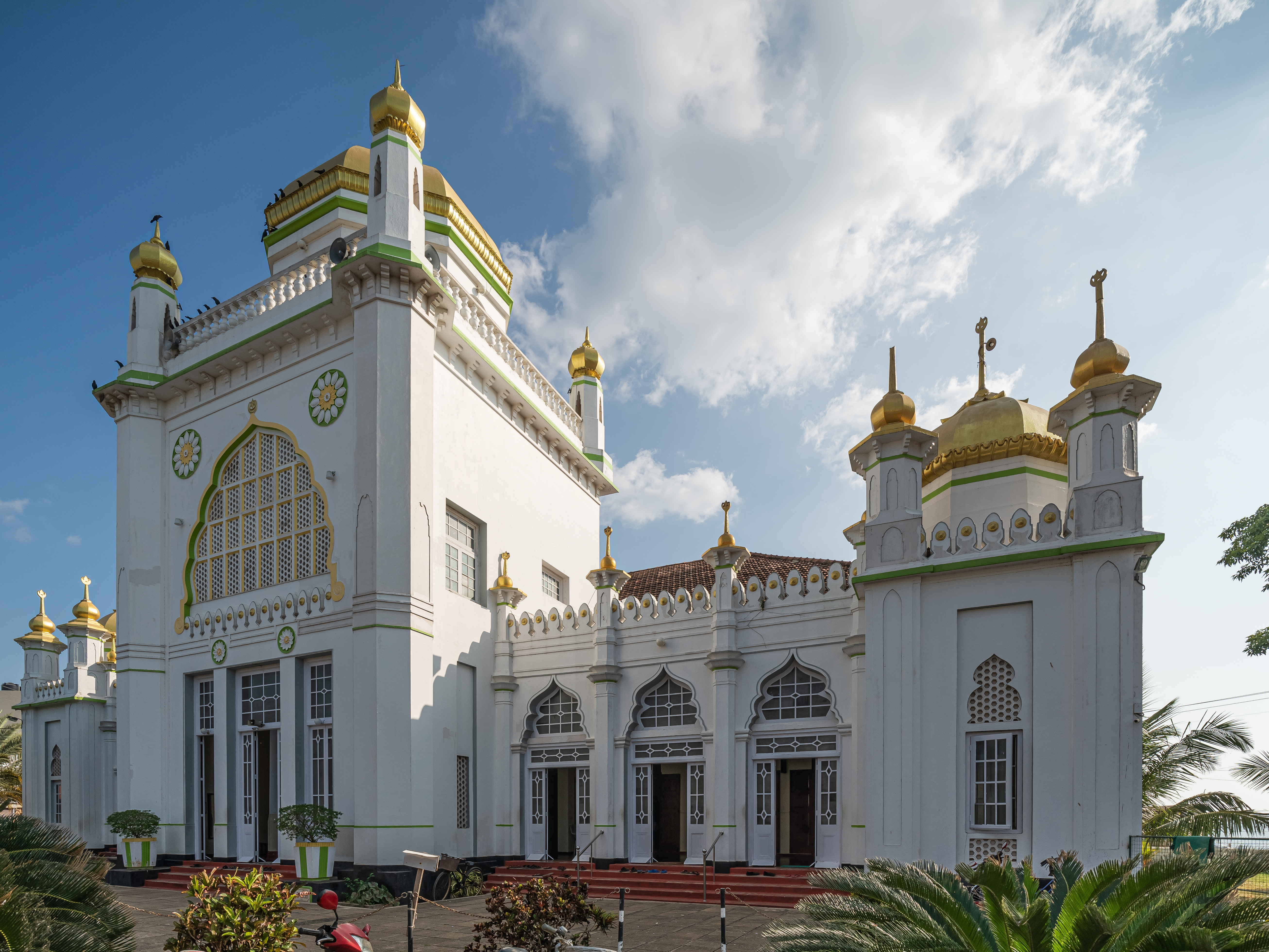 Grand Mosque in Puttalam, Sri Lanka